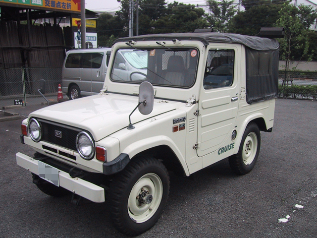 Daihatsu Taft